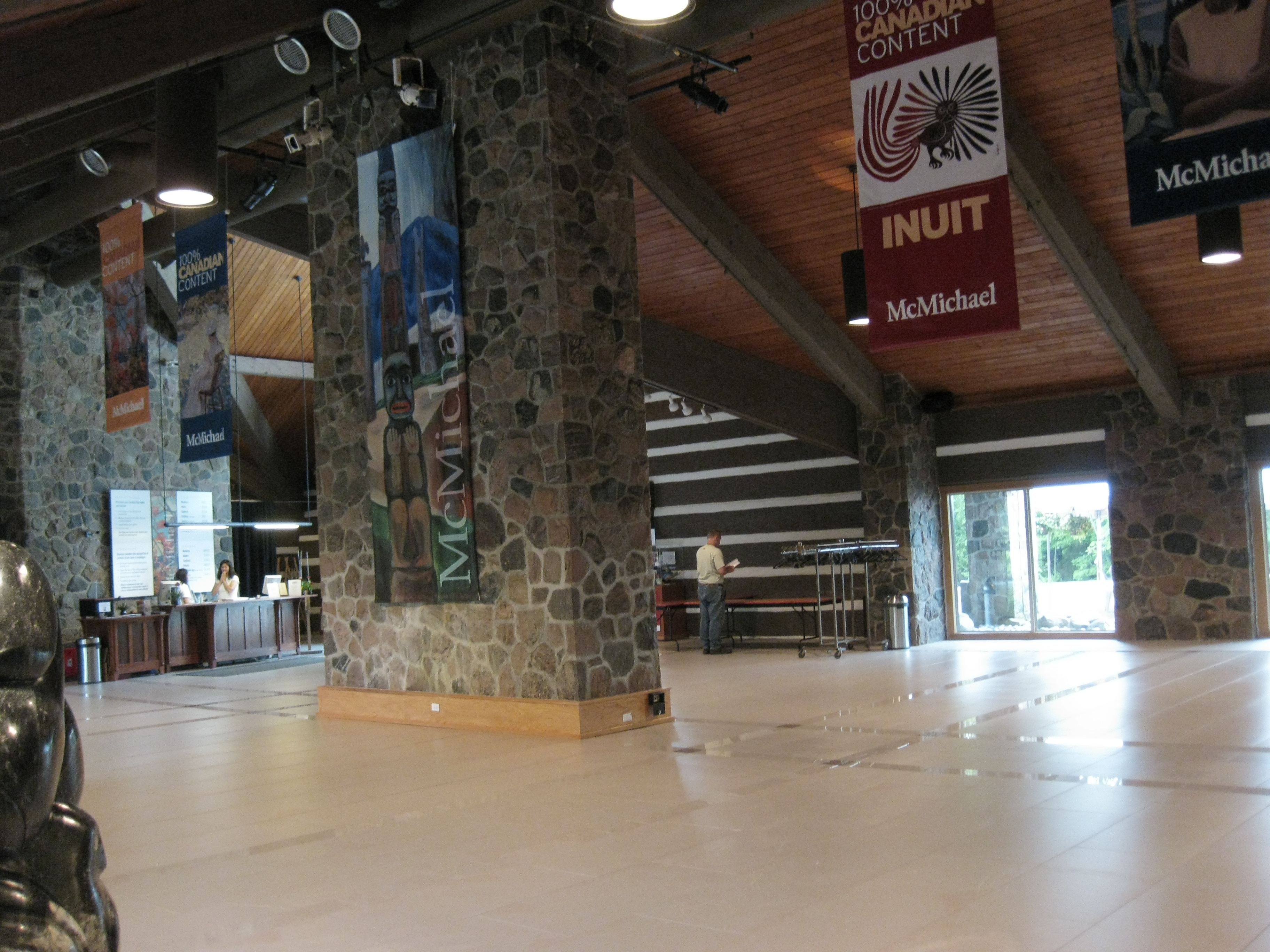 The following is the author's description of the photograph quoted directly from the photograph's Flickr page. "The McMichael Gallery in Kleinburg, Ontario "